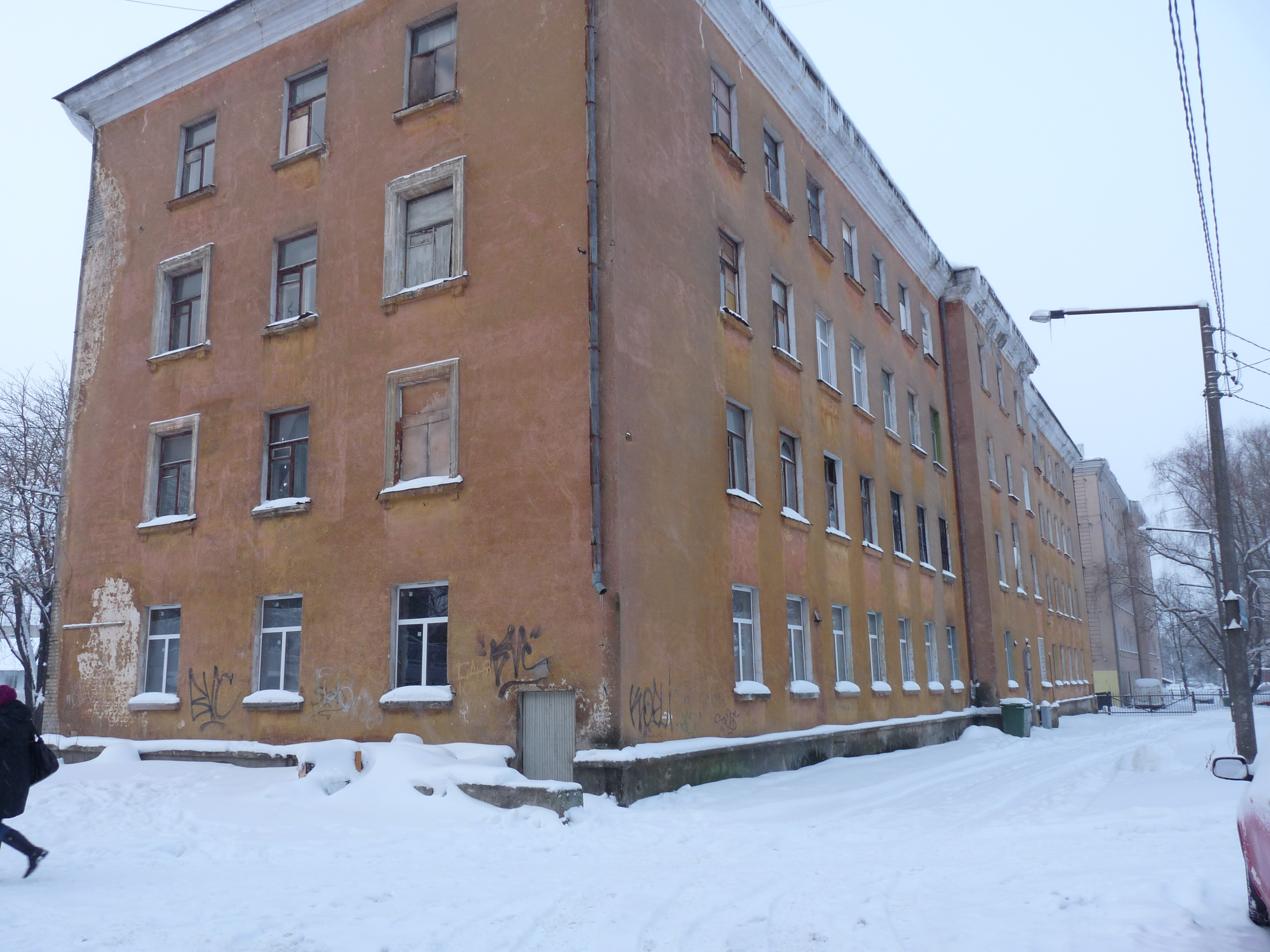 Slum in Angerja subdistrict